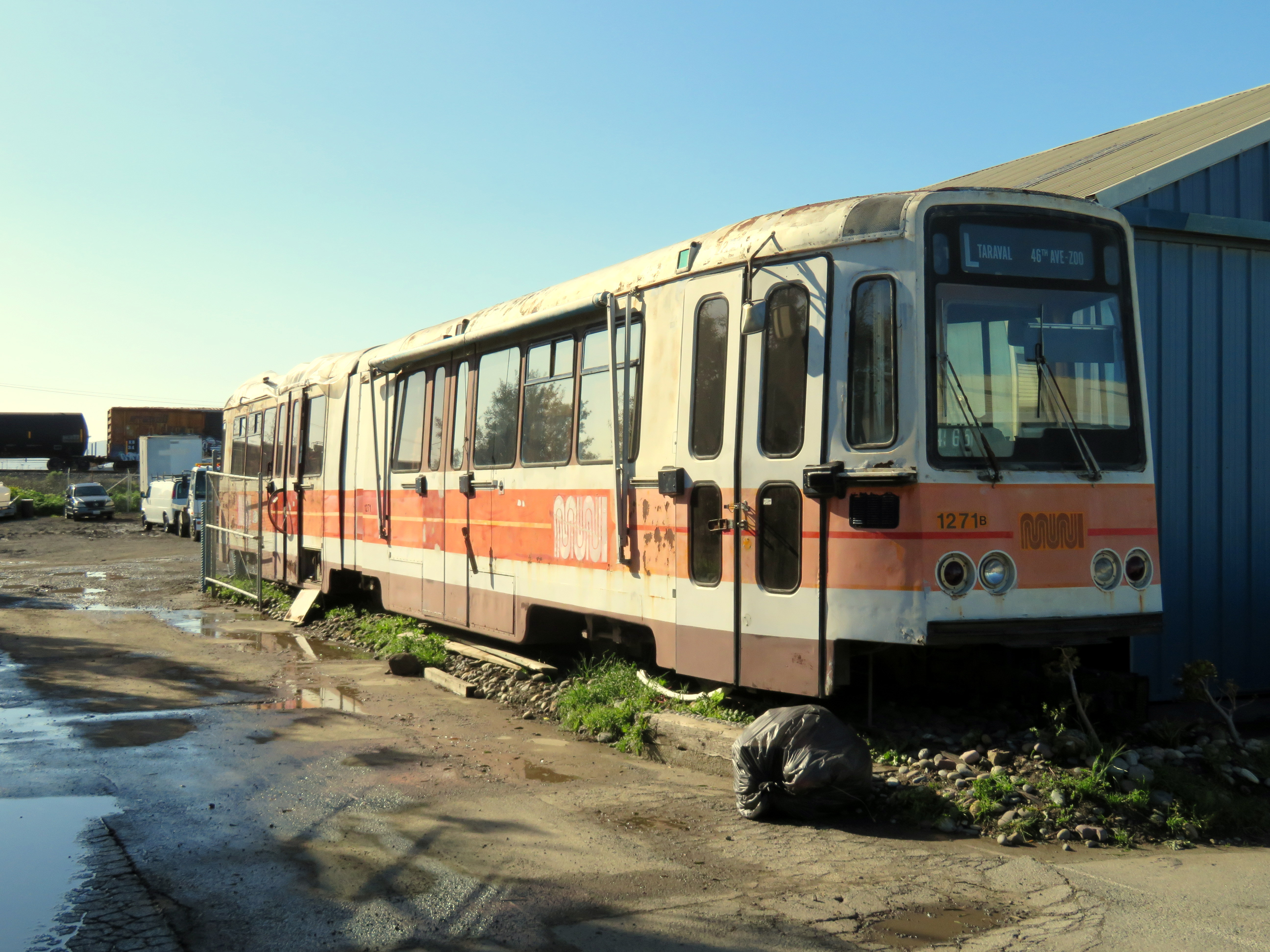 Former Muni LRV #1271, now a yard office in a scrapyard in San Pablo, in March 2018. Photo taken with permission of yard employee.